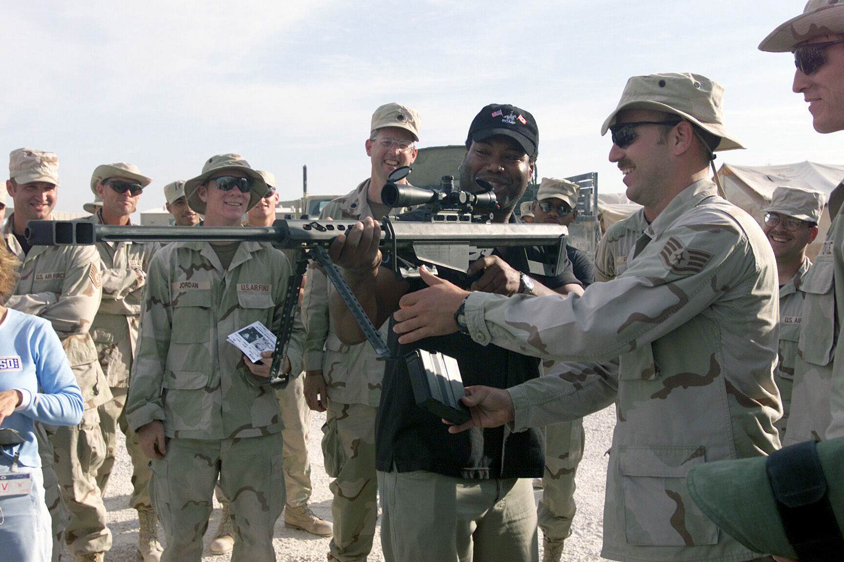 Explosives Ordnance Demolition (EOD) technician Staff Sergeant (SSGT) Chris Pearce from the 366th Civil Engineering Squadron (CES), removes an empty ammunition magazine from a Barrett.50 caliber rifle for visiting actor Christopher Judge, during a morale and welfare visit in support of Operation ENDURING FREEDOM.